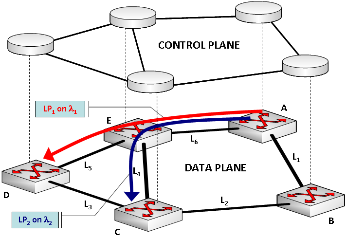 This picture illustrates the architecture of a Wavelength Switched Optical Network. Control and data plane are depicted. Two established lightpaths are represented.